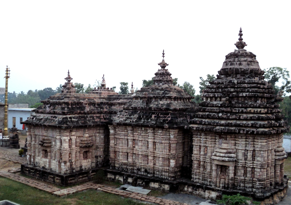 This is a old Vasudeba Temple in Mandasa.